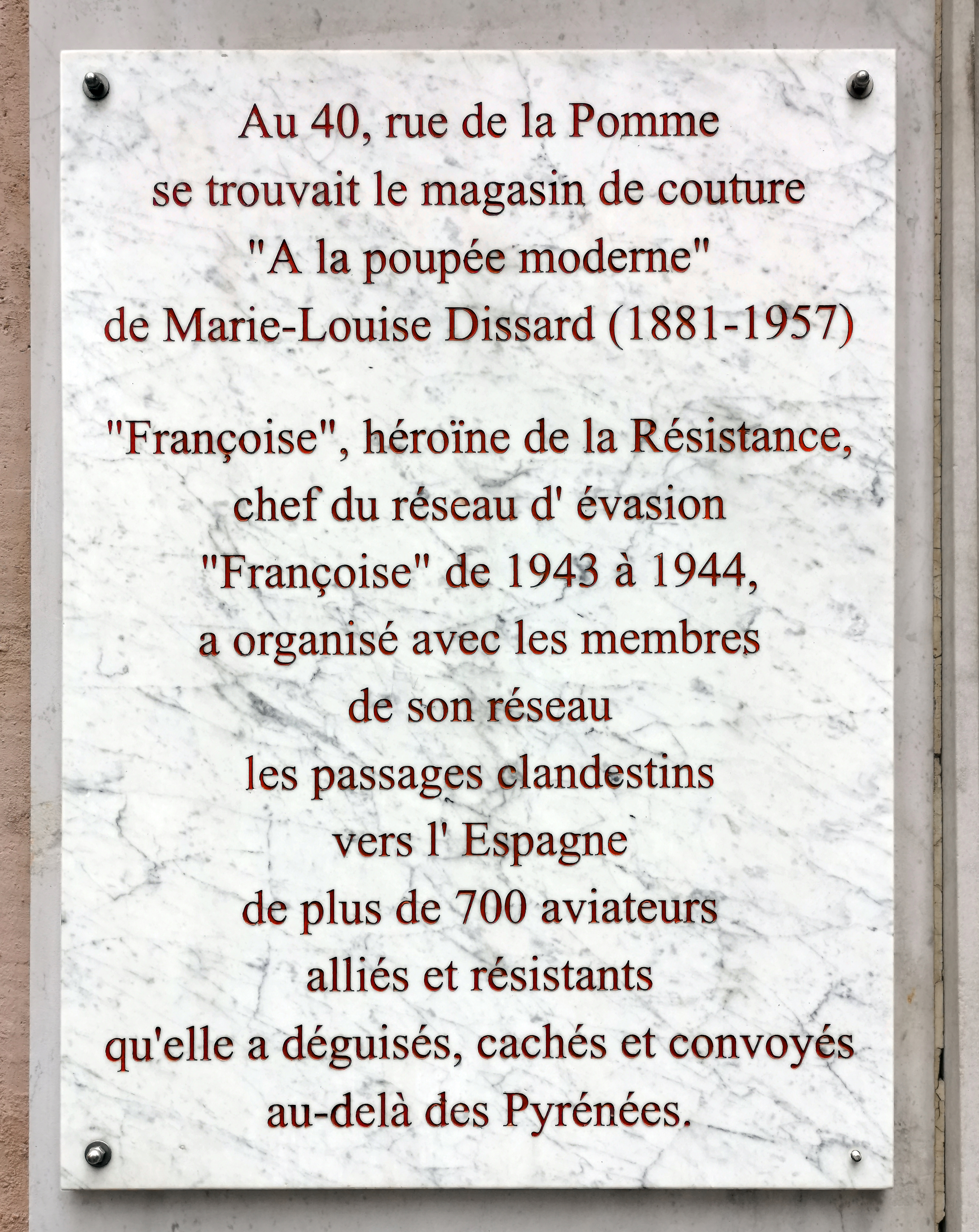 Memorial to Marie-Louise Dissard 40 Rue de la Pomme